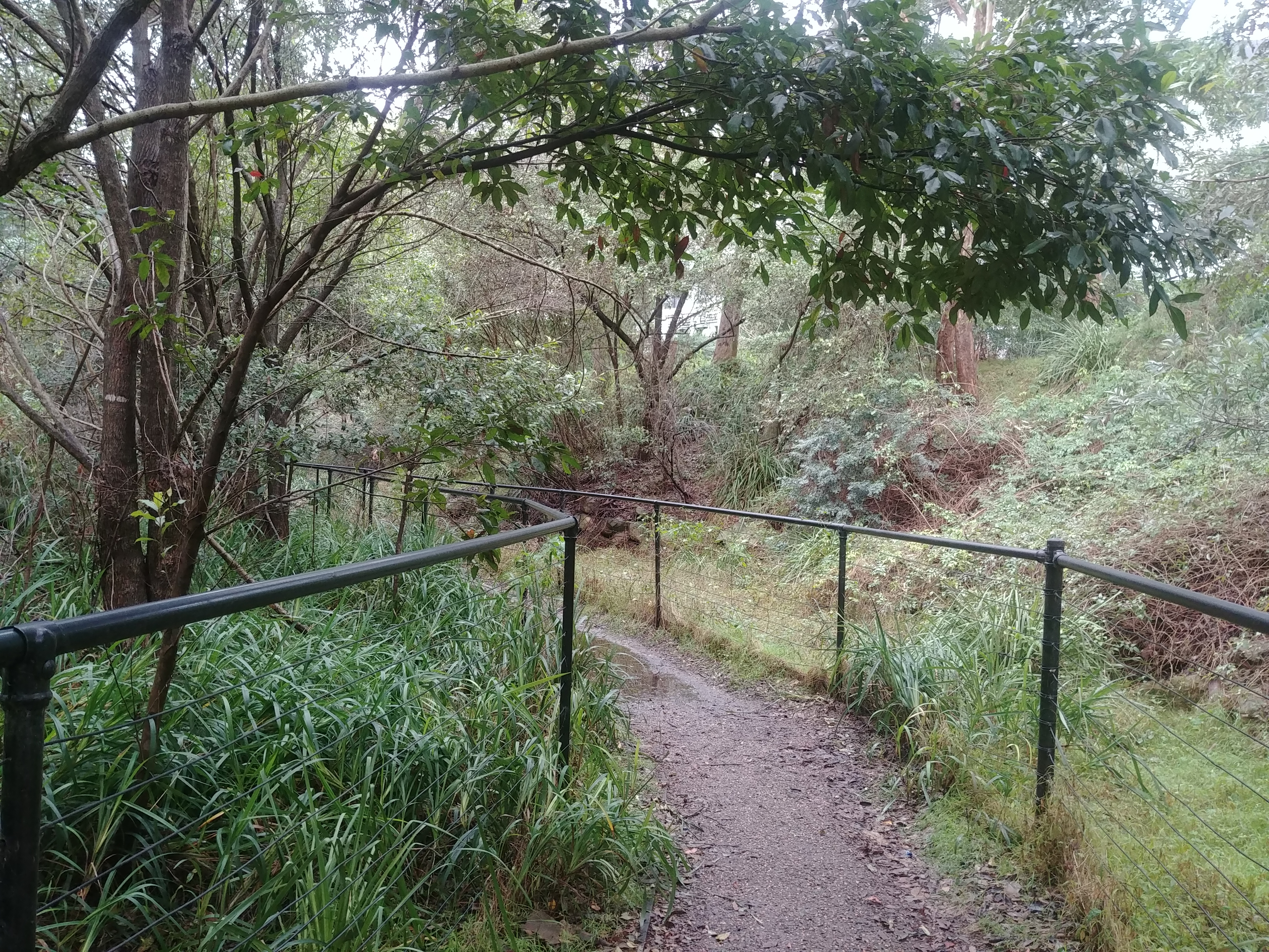 Path, fences, and scrub along a creek in Sydney.